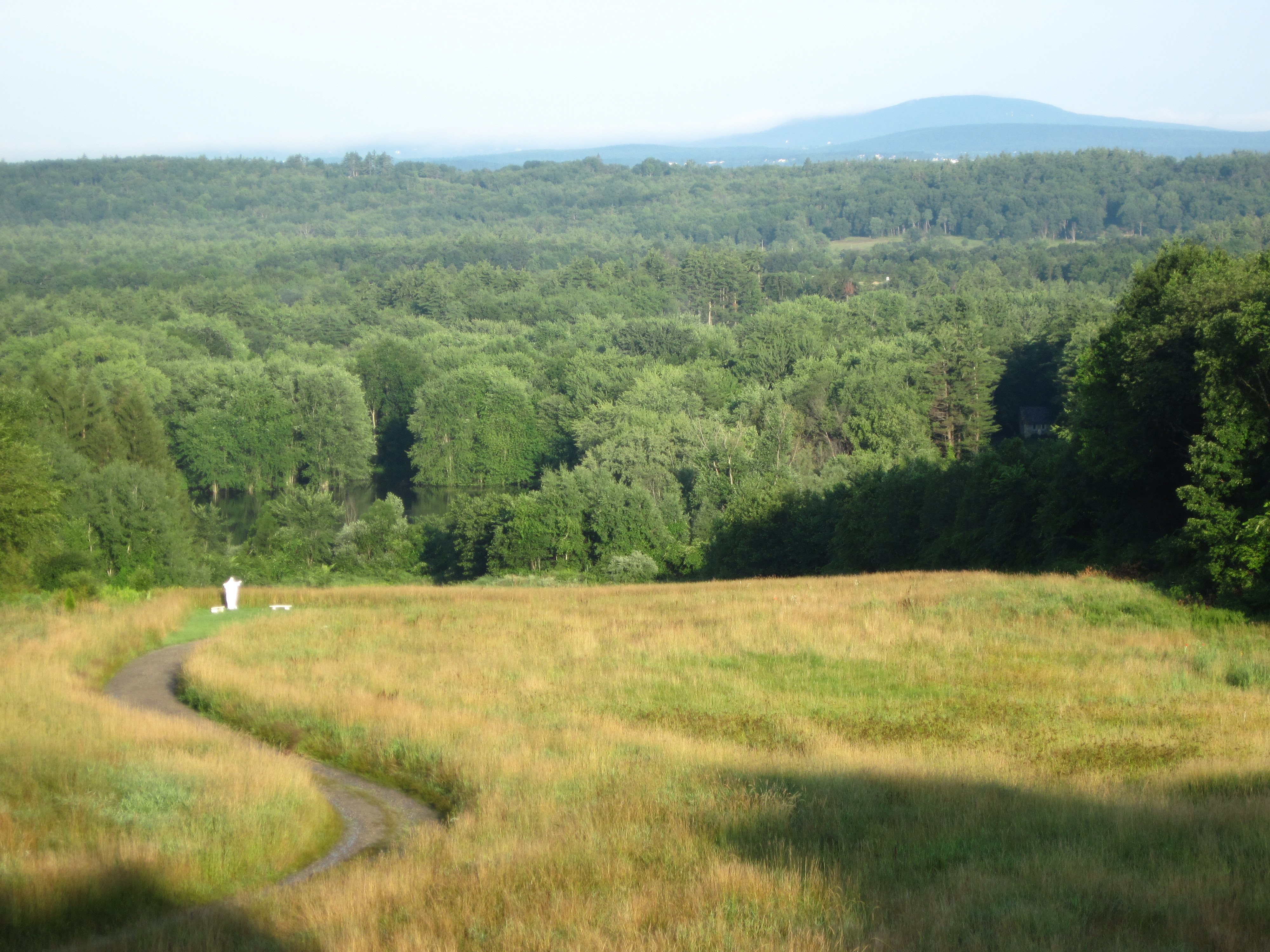 A view of Mount Wachusetts looking over the Nashua River valley from Saint Benedict Abbey